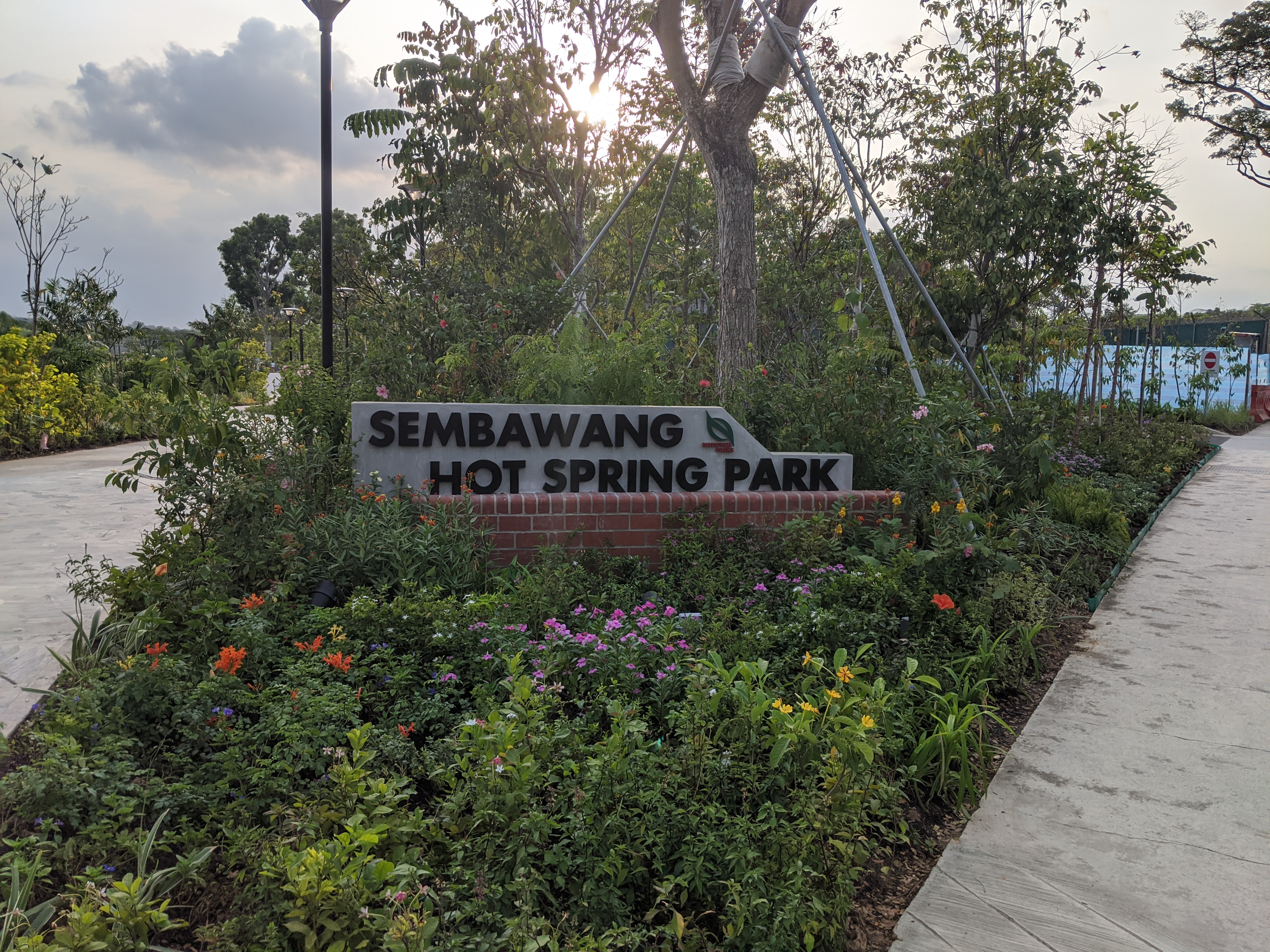 This is the entrance of Sembawang Hot Spring Park, the only such park on mainland Singapore.